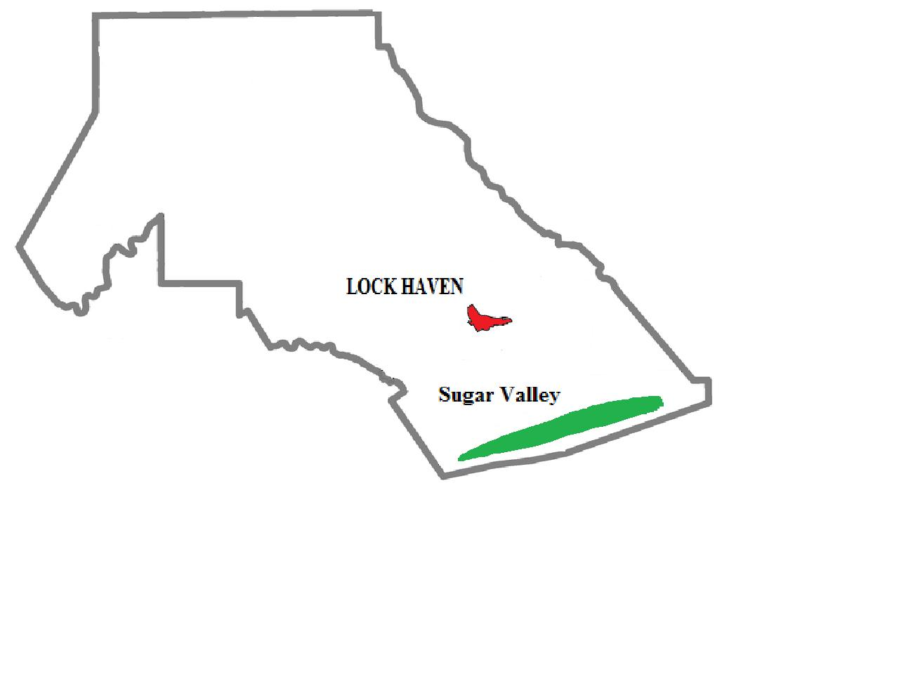 This is a map of the location of Sugar Valley within Clinton County in Pennsylvania.